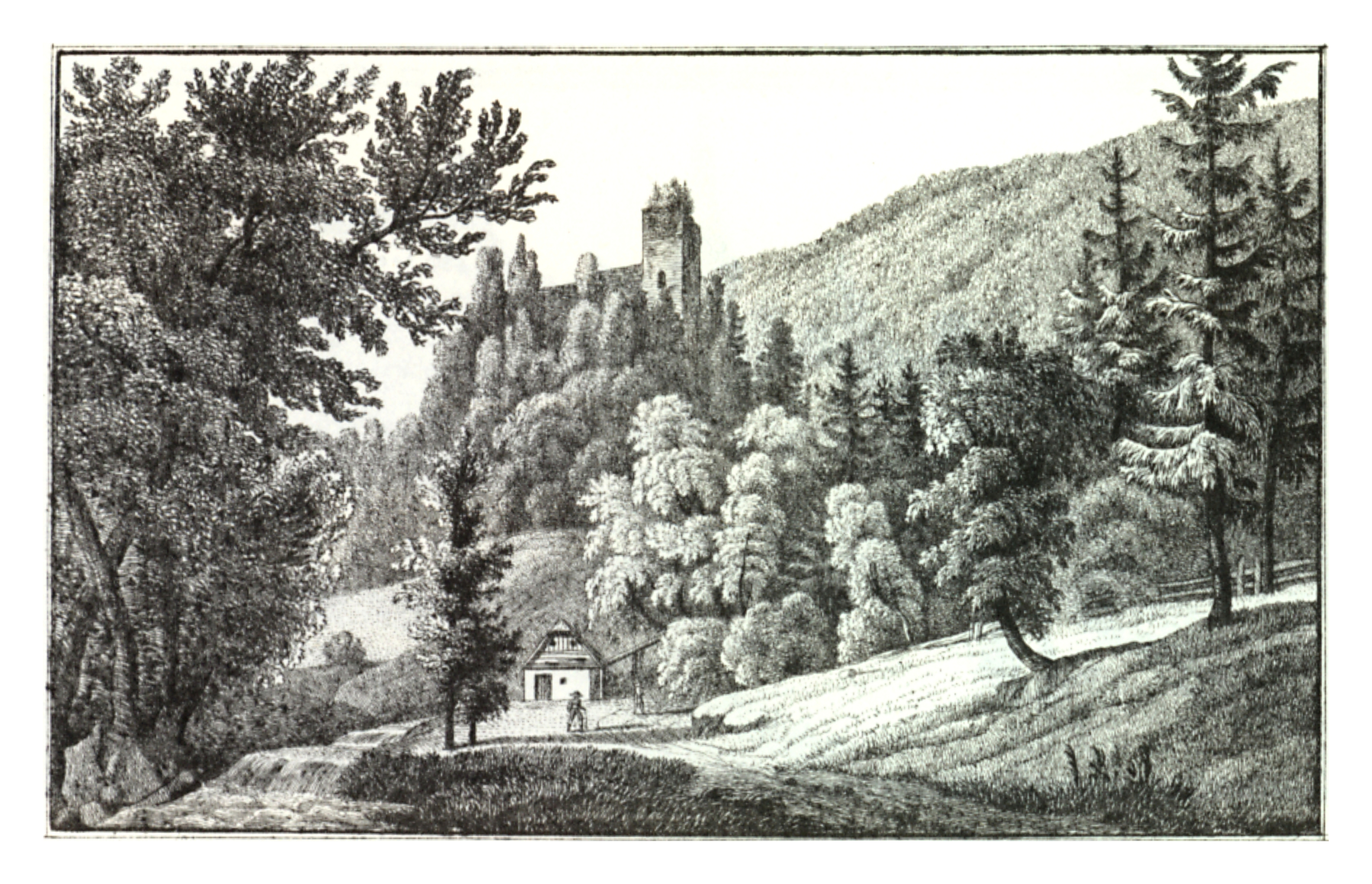 J. F. Kaiser - lithographirte Ansichten der Steyermärkischen Städte, Märkte und Schlösser Graz, 1825 Scanprojekt Community Projektbudget 2012 This scan or this PDF-file was created within the GLAM-project Bookscanning, supported by Wikimedia Germany and Wikimedia Austria as a part of the community-project to capture books, documents and pictures which are not eligible to copyright or for which the copyright has expired. This document describes or depicts an object which is located in Austria today. Send requests for uncompressed scans to Hubertl. This work is in the public domain in its country of origin and other countries and areas where the copyright term is the author's life plus 100 years or less. You must also include a United States public domain tag to indicate why this work is in the public domain in the United States. This file has been identified as being free of known restrictions under copyright law, including all related and neighboring rights.